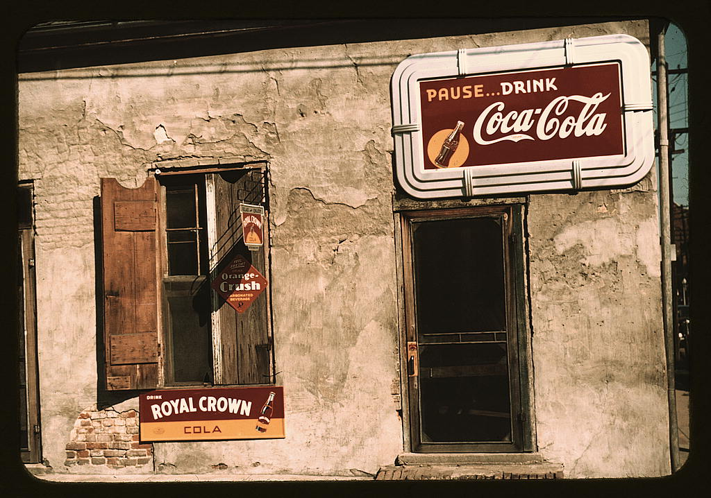 Natchez, Mississippi, 1940. Building with soft-drink advertisements. Photograph shows store or cafe with soft drink signs. Diamond-shaped sign: Fresh Orange-Crush"; above it: Relax and enjoy Royal Crown Cola. Coca-Cola sign at top right.